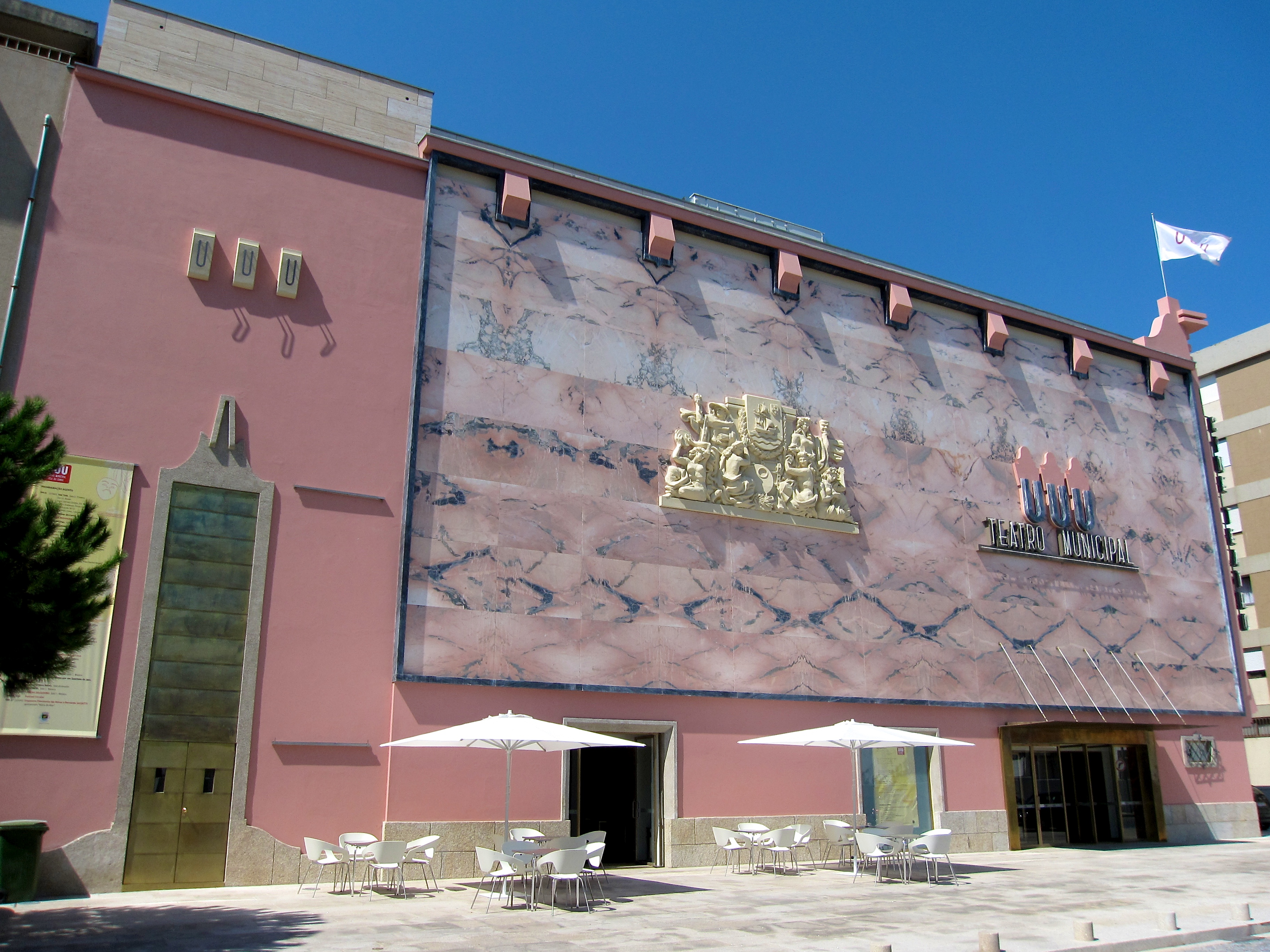 This file was uploaded for Wiki Loves Monuments in Portugal with the unique identifier 97010739.